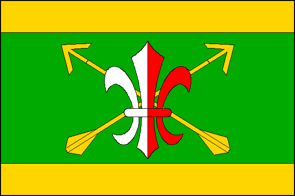 Flag of Honětice, Kromšříž District, Czech Republic.